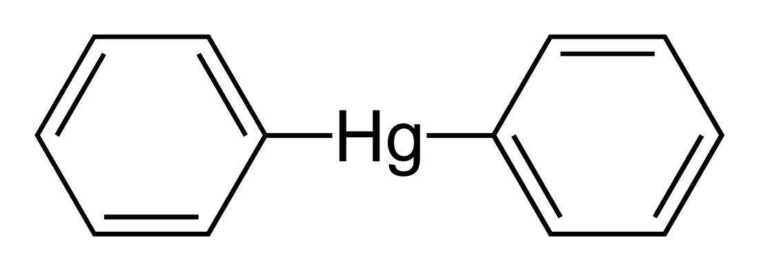 Skeletal formula of diphenylmercury, Ph2Hg, C6H10Hg.